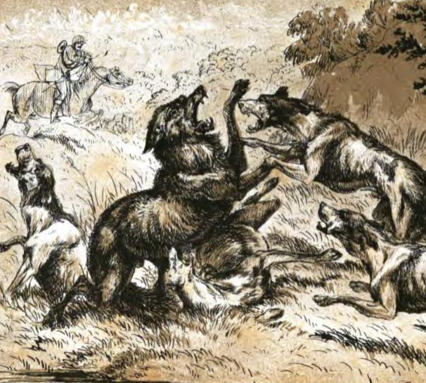 "Death Struggle", as illustrated by Crealock, Henry Hope, 1831-1891